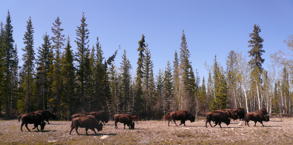 Bisons along the Yellowknife Highway